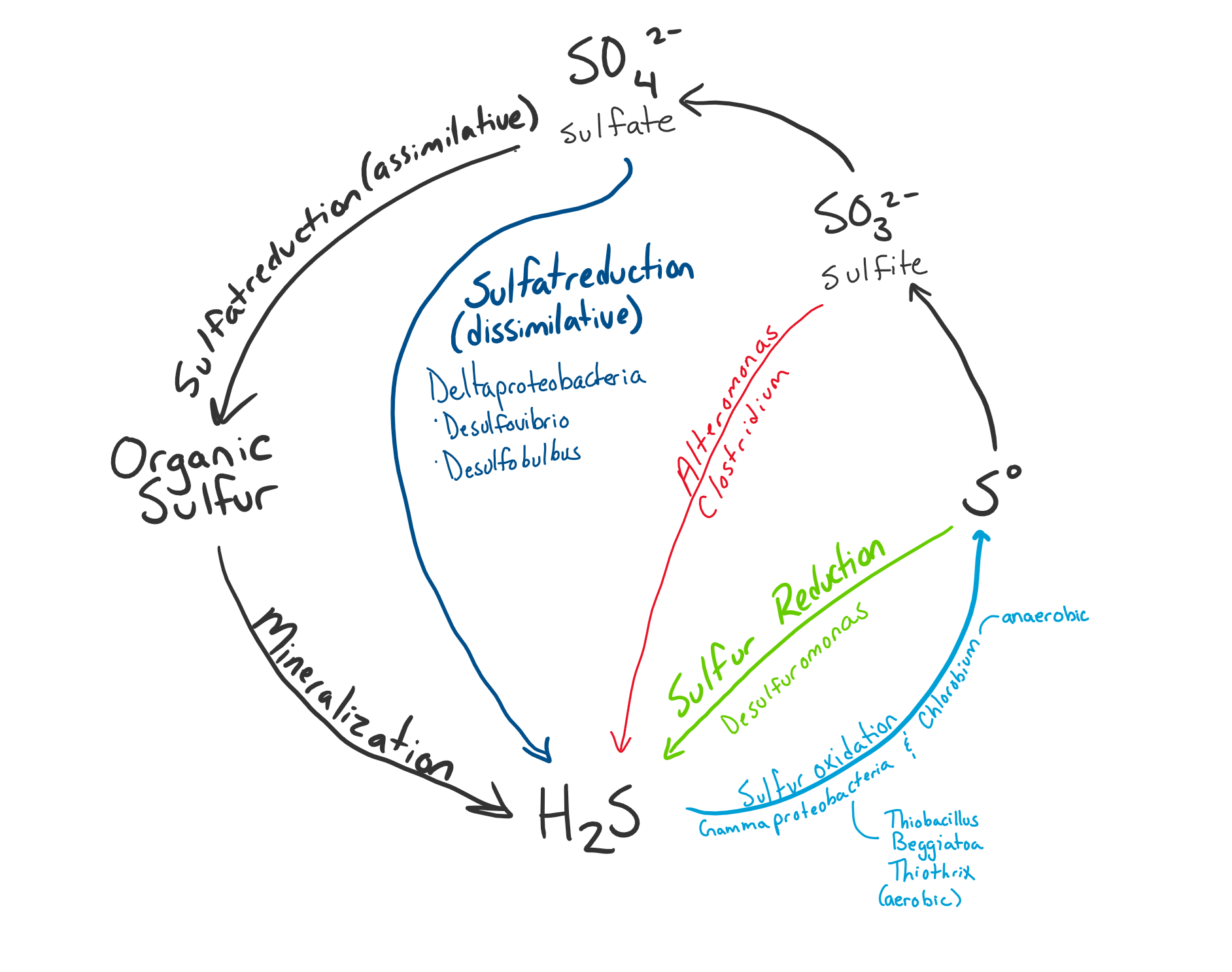 A hand-drawn depiction of the general sulfur processes and metabolism pertaining to hydrothermal vent microbial communities